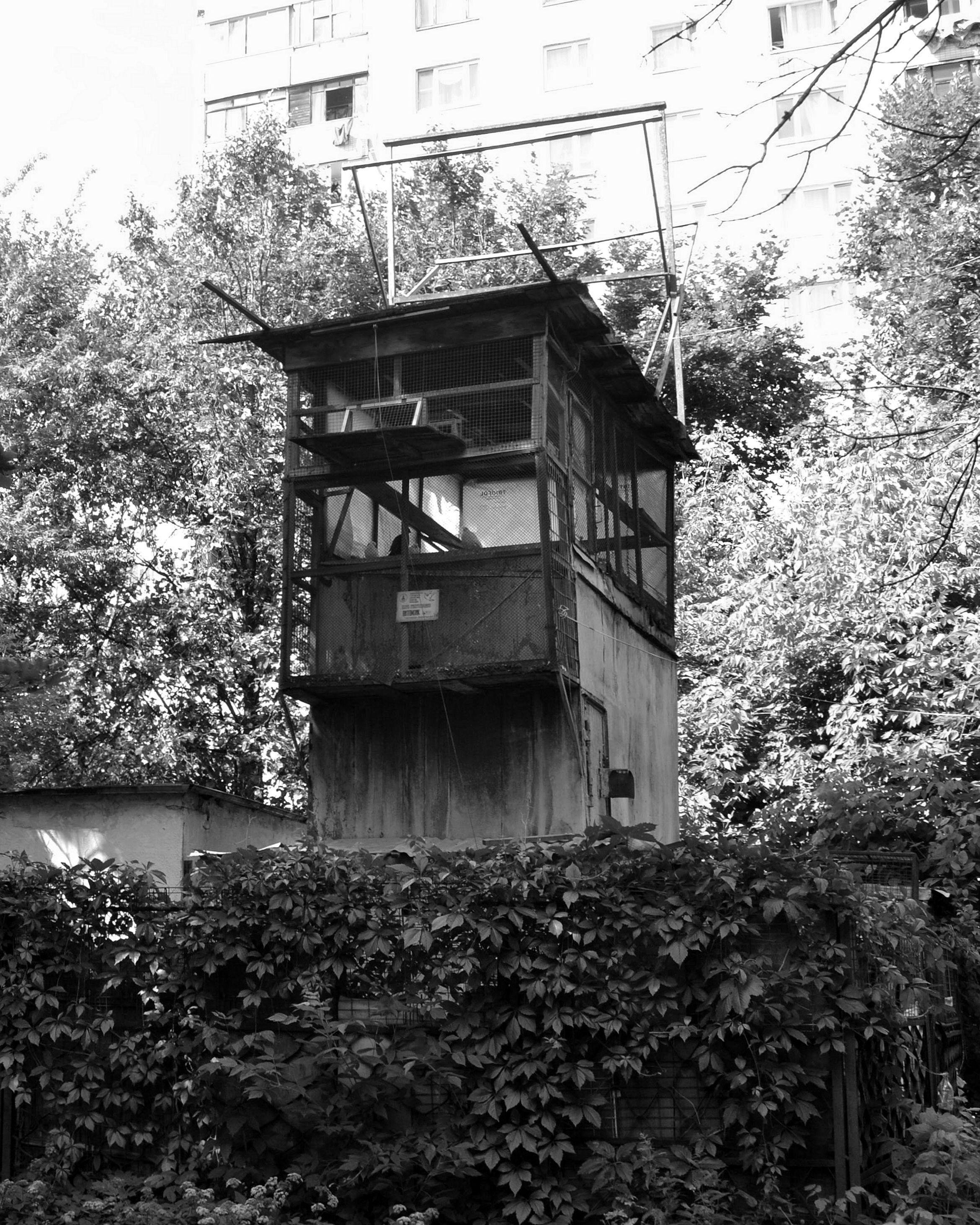 A dovecote in Korolyov, Moscow Oblast. A small building on the left (with graffiti on a wall) is a substation of electric supply system.